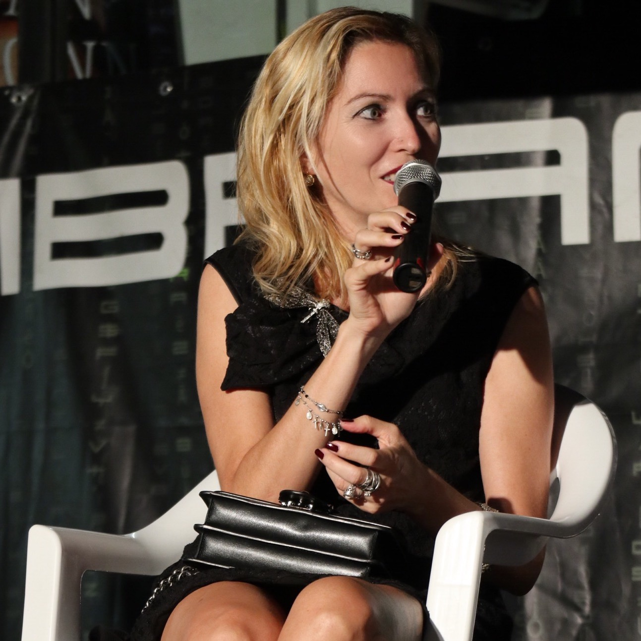 Barbara Baraldi on stage of Librandosi literary festival on 27 july 2018 a Lido degli Estensi (FE) - Italy